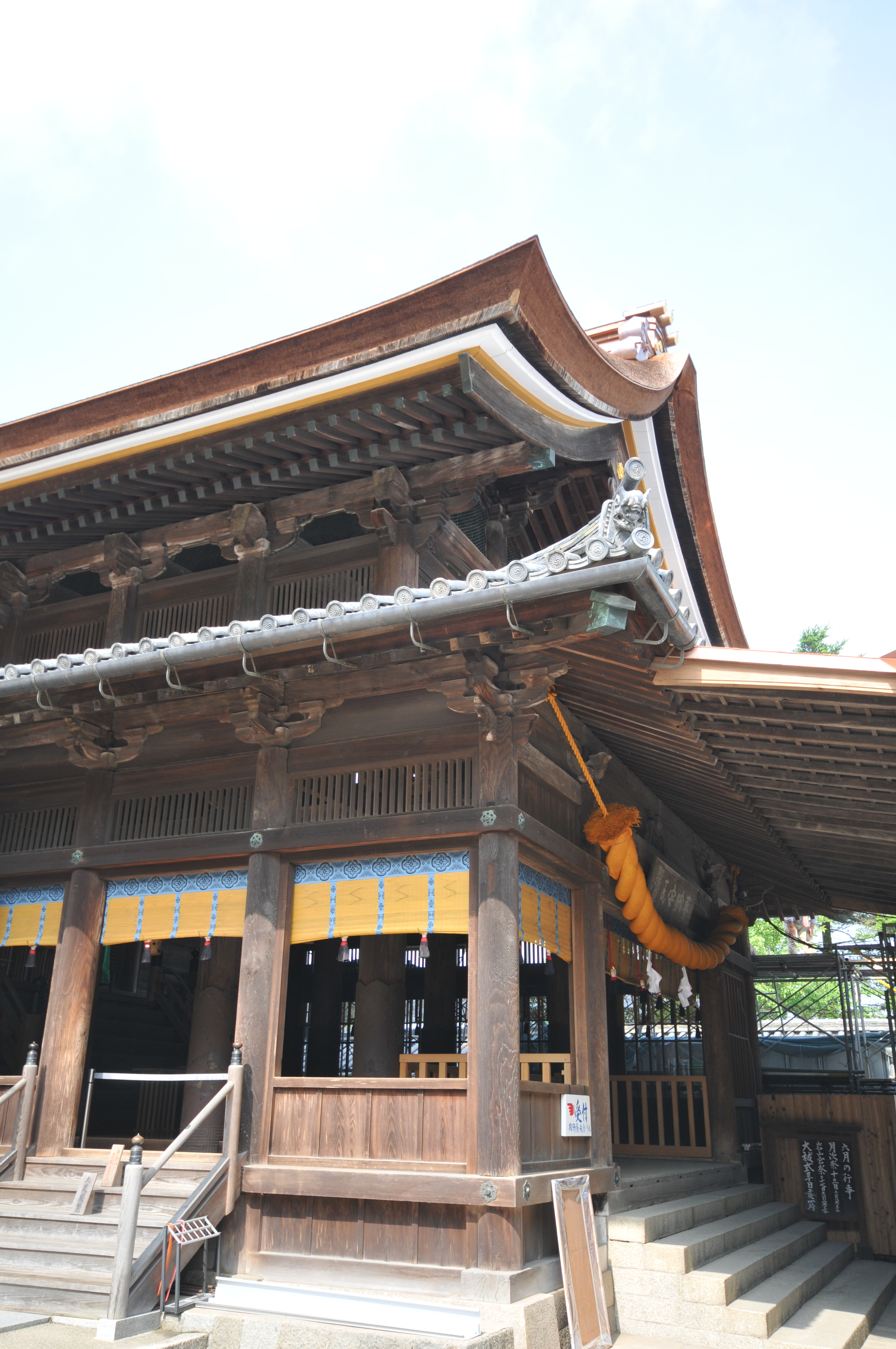 The haiden (Worship Hall)